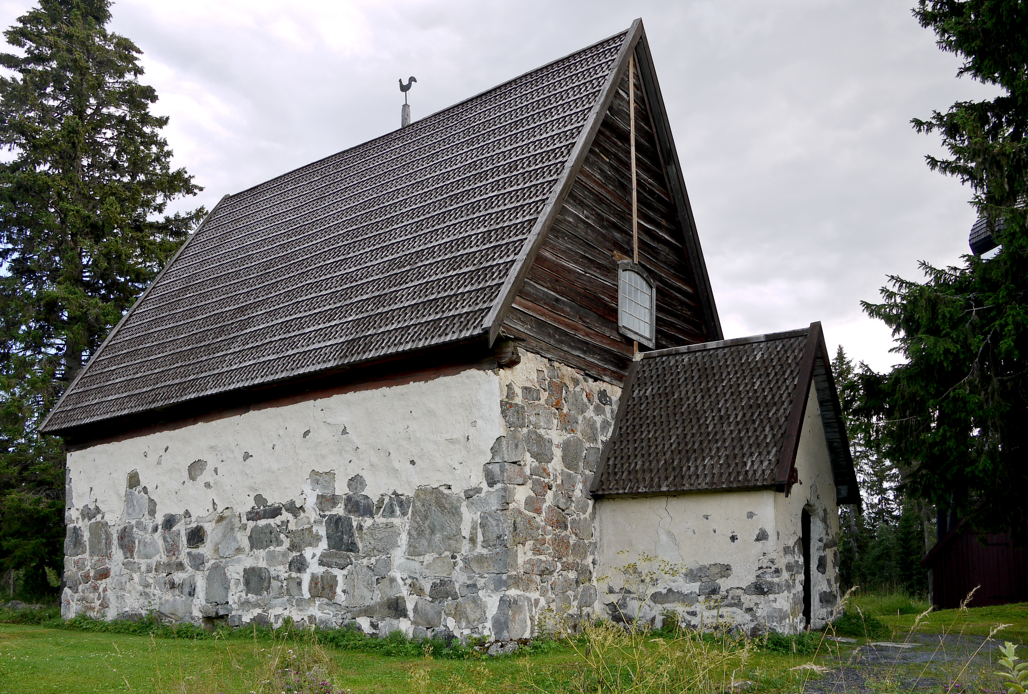 Kyrkås gamla kyrka/Kyrkås old church. Diocese of Härnösand, Östersund, Sweden.